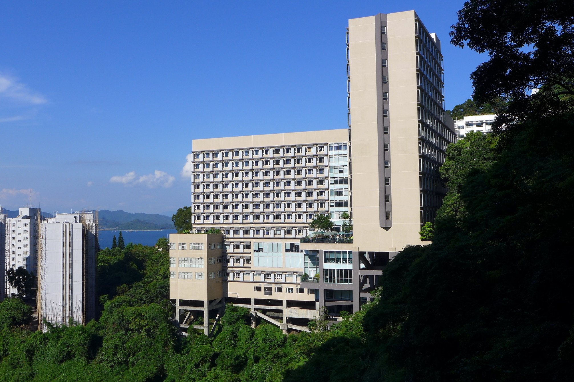 Lee Woo Sing College